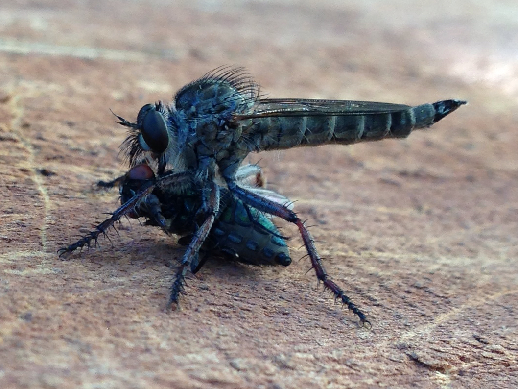 An asilid fly (robber fly or assassin fly) with common housefly prey, resting on a redwood gate while feeding (abdominal sucking pulsation could be seen). Photo with my iPhone 5 in Ontario, California, June 15, 2013. The asilidae have the body plan of mosquitoes but with powerful spiny legs and a short proboscis. Length was estimated 1.5 to 2 cm. The mystax and occular fringes on this species (not identified) can be seen. Wings are closely folded. The hunting forward-adaptation of the compound eyes reminds me a little of mantis shrimp. They are athletic: this one, when disturbed too much by me took rapid flight, taking its prey with it.